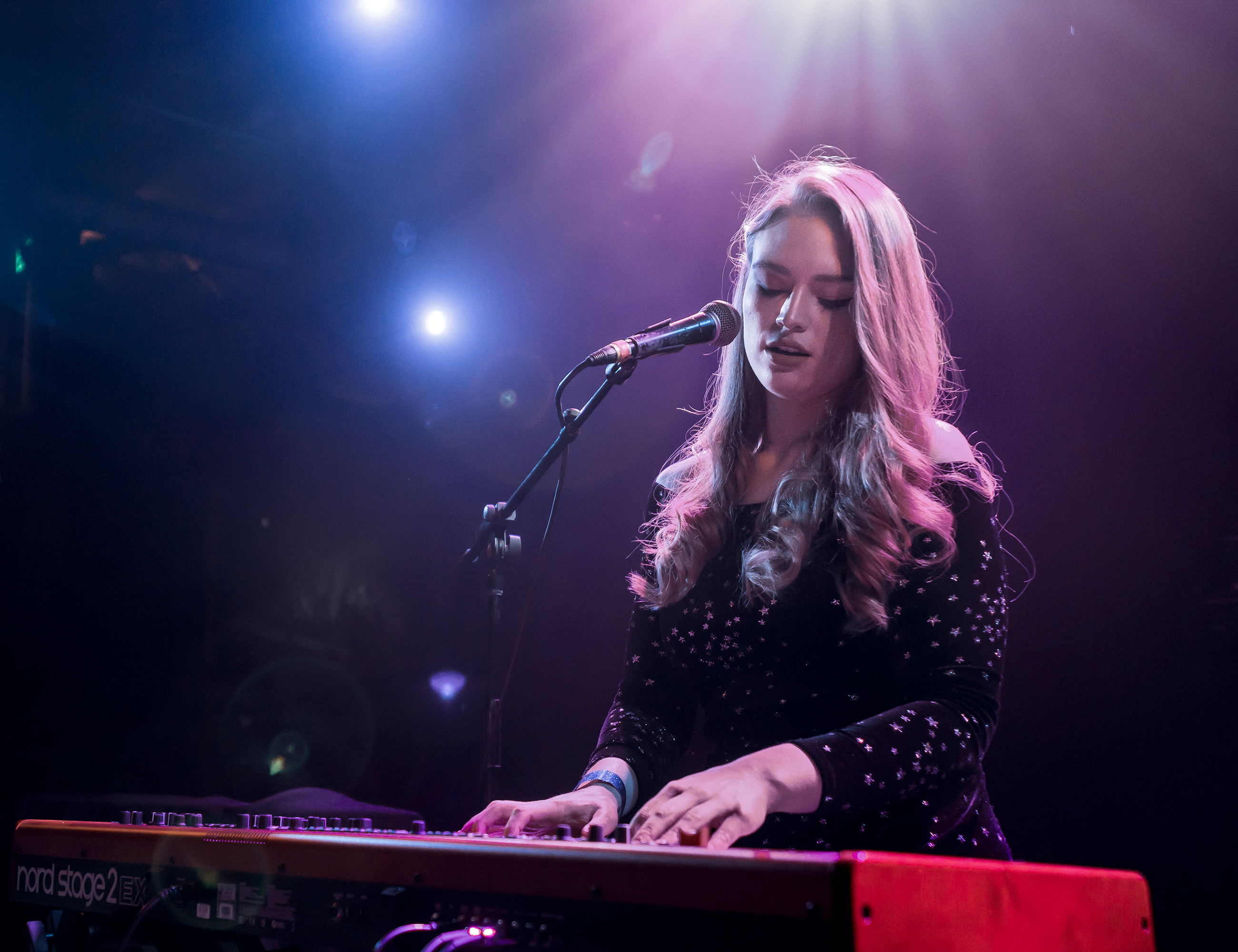 Freya Ridings performing live at The Troubadour in Los Angeles, California, on Wednesday, March 28, 2018. Use with permission.